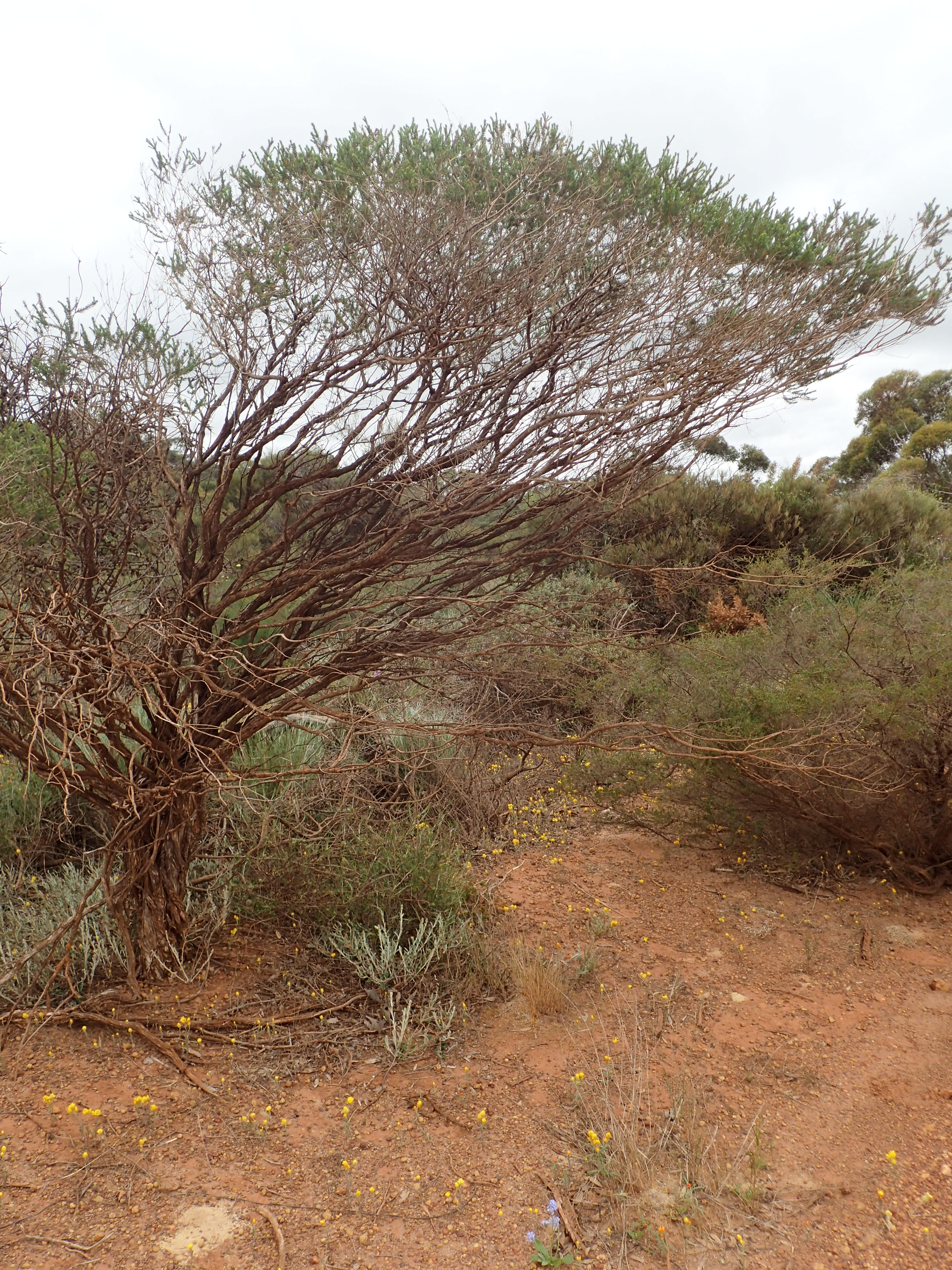 Melaleuca beardii growing on Simpson Road, near Dudawa Road, Dudawa